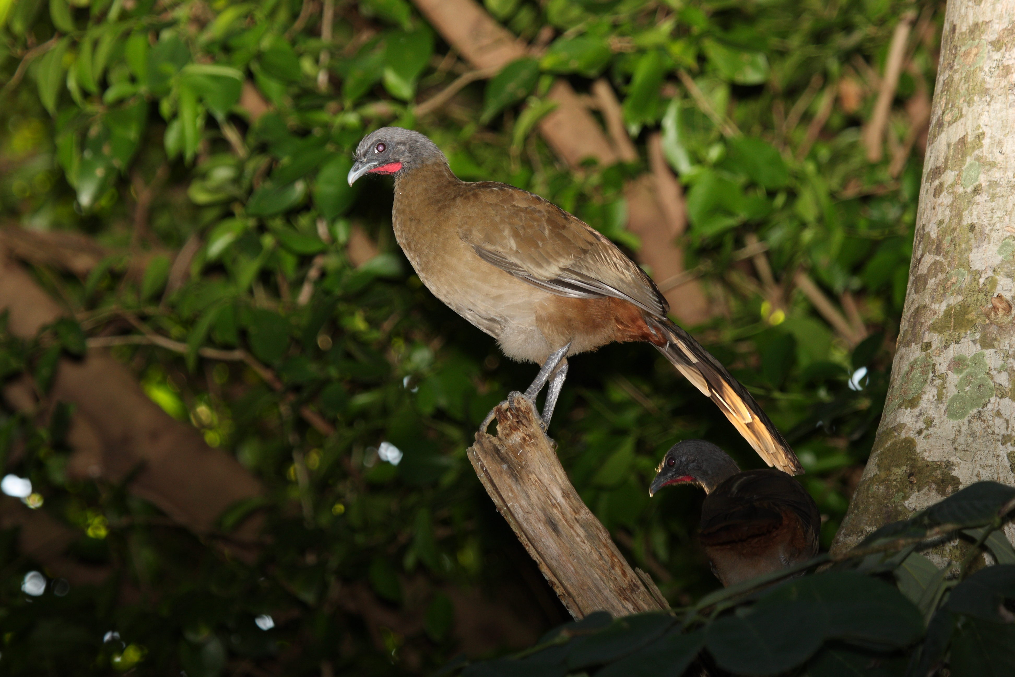 Rufous-vented Chachalaca (Ortalis ruficauda)